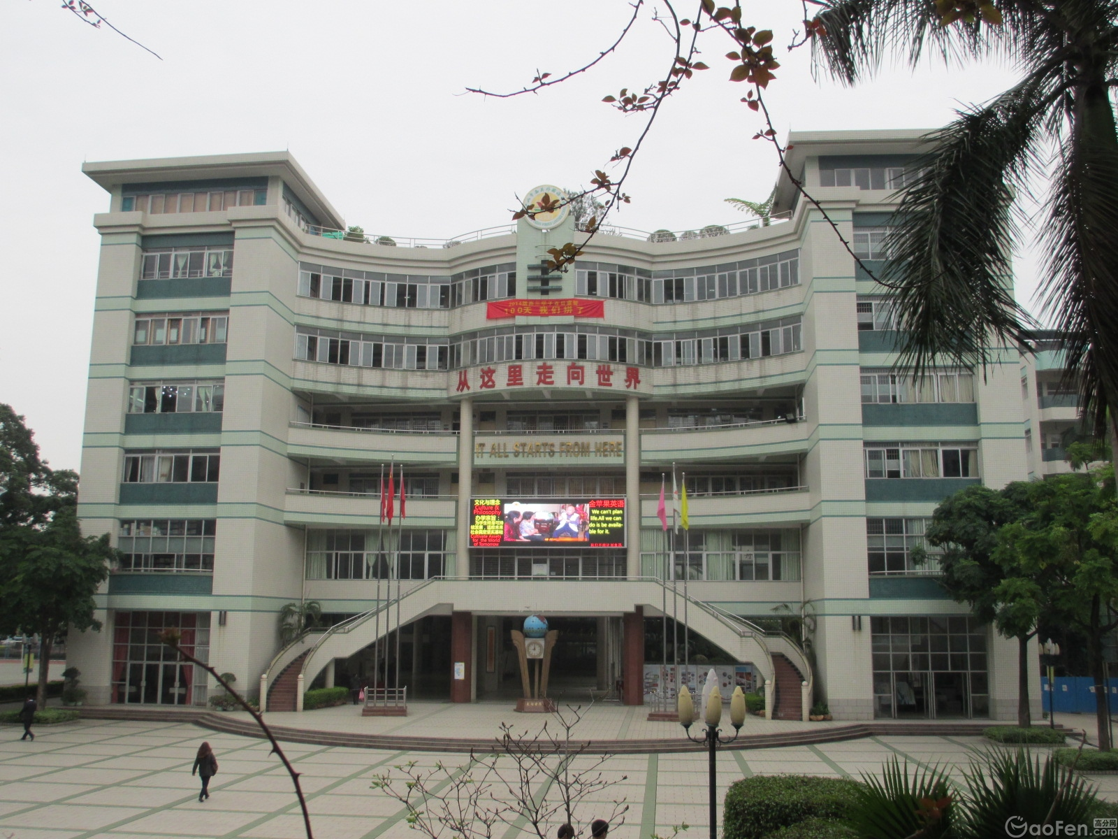 the main building of Guangzhou Xiguan Foreign Language School